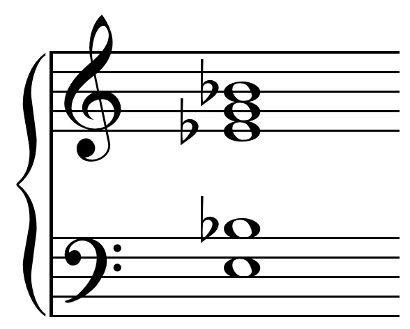 Upper Structure Triad example: a common voicing used by jazz pianists is given for the chord C7♯9 (C major chord with a flat 7th, and extended with a sharpened 9th).